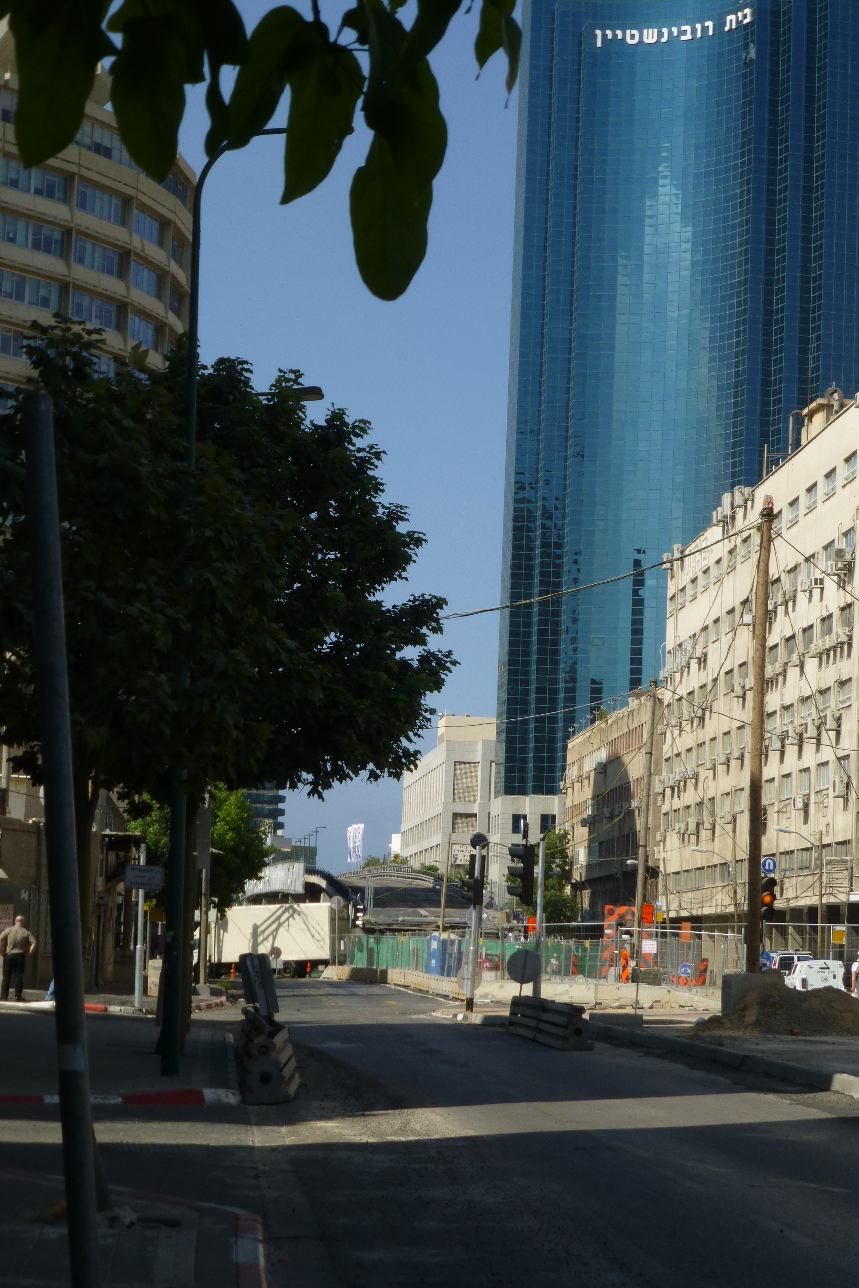 Maariv bridge